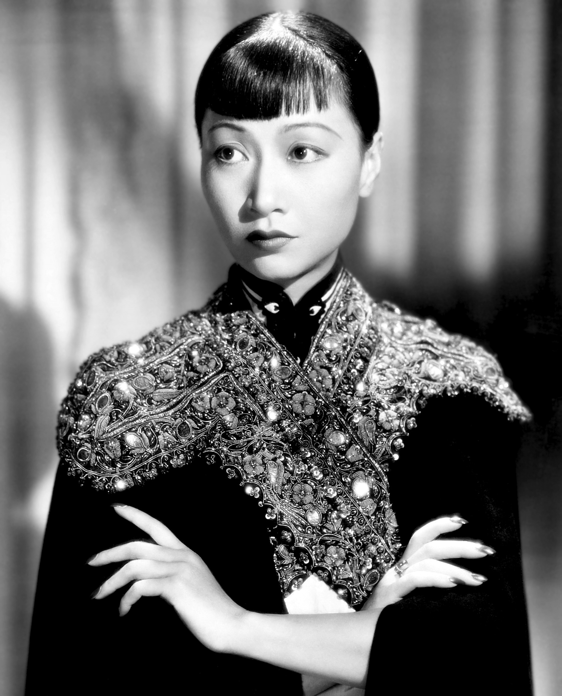 Publicity photo of American actress Anna May Wong on November 17, 1937. According to Heritage Auctions, Paramount Pictures likely commissioned and distributed this photo to promote her upcoming film Daughter of Shanghai, which was released the following month.